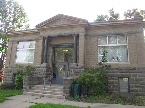 Redwood Falls Carnegie Library, on the National Register of Historic Places